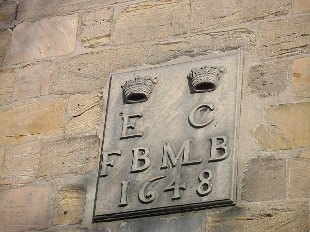 Date of building, 176 High Street